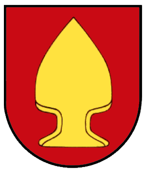 Coat of arms of Welschensteinach in Steinach